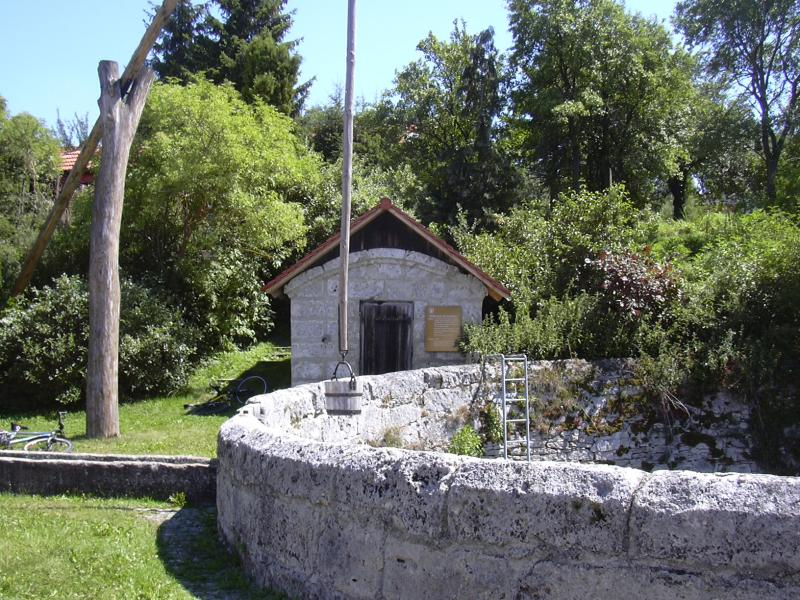 The Rossbrunnen (“horse well”) in Lonsingen on the Swabian Jura, Germany